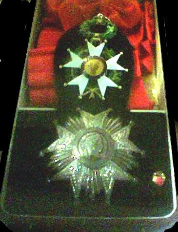 French Legion of Honour, Grand cross insignia